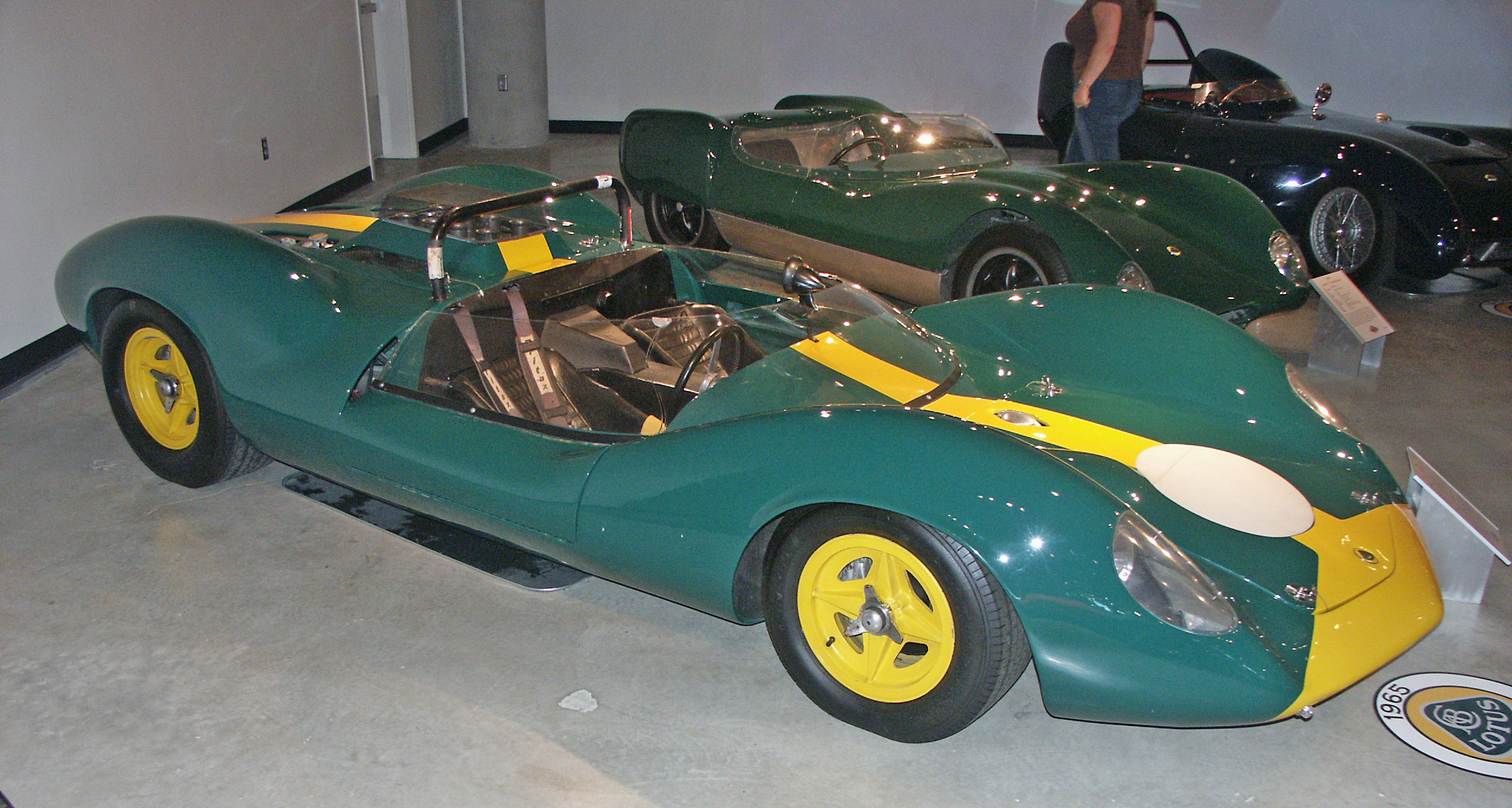 Lotus 30 sports racing car at the Barber Vintage Motorsports Museum in Leeds, Alabama, USA.